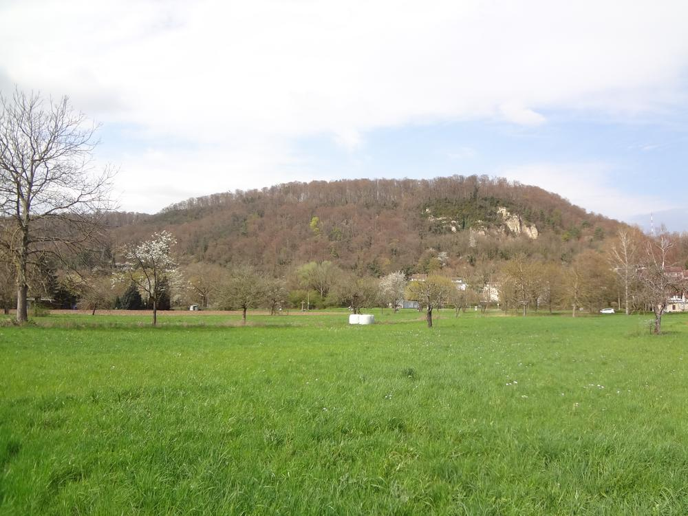 Picture of a blooming Acer opalus